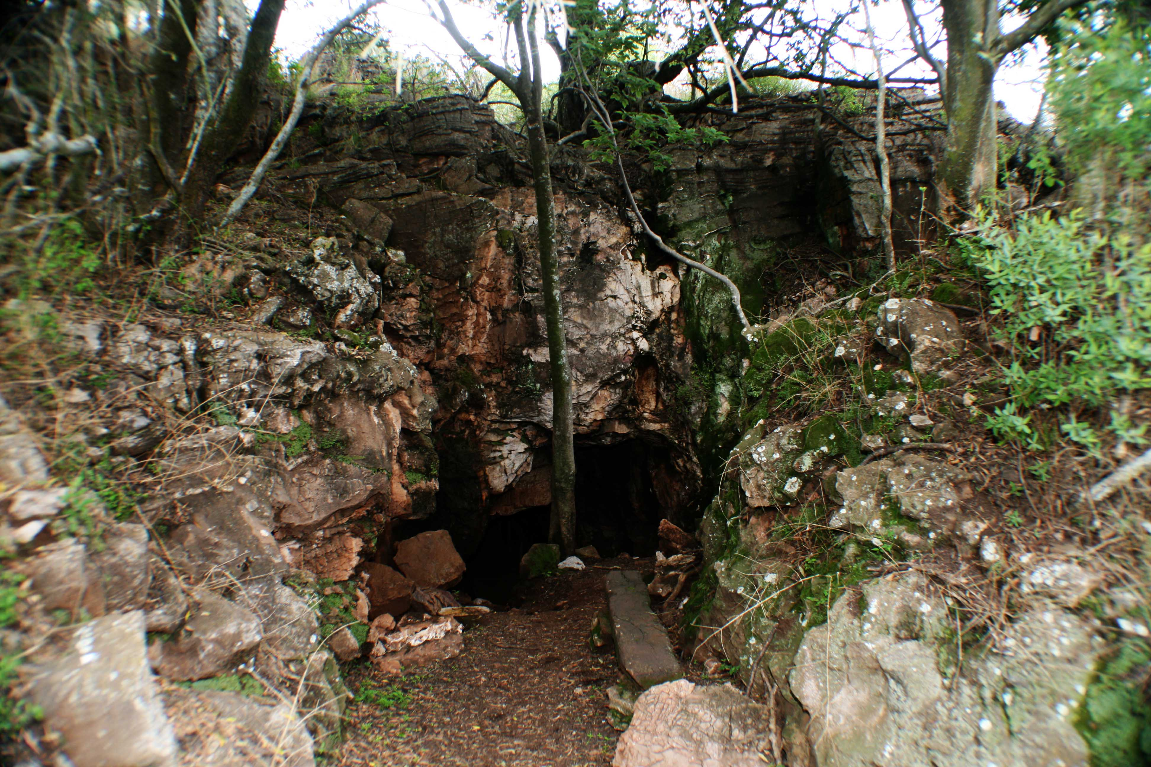 Plovers lake external view, South Africa